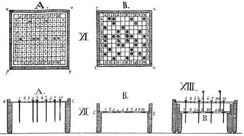 Drawing of flat homeoscope